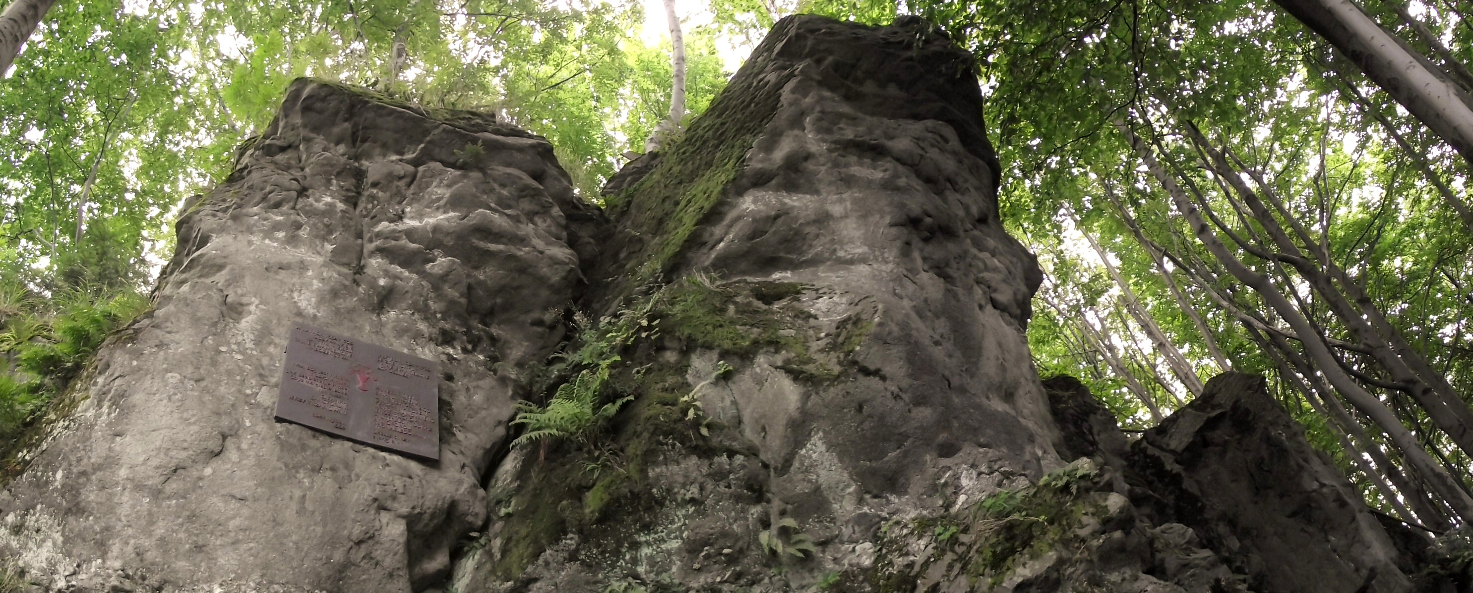 "The forest church" - a secret Lutheran service place used in the time of the Counter-Reformation at the place called Zakamiyń ("Behind the Stone") in Nýdek on the west side of Czantoria Mount. On the rock the plaque commemorating George Tranoscius.